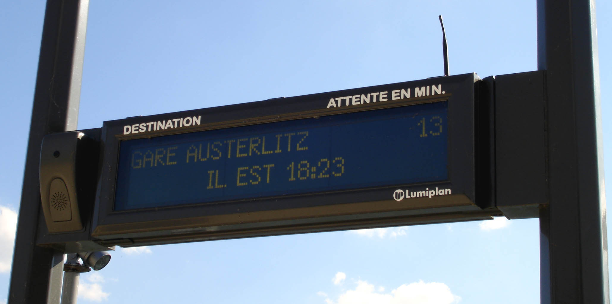 Bercy pier, river shuttle Voguéo, on the river Seine in Paris, France